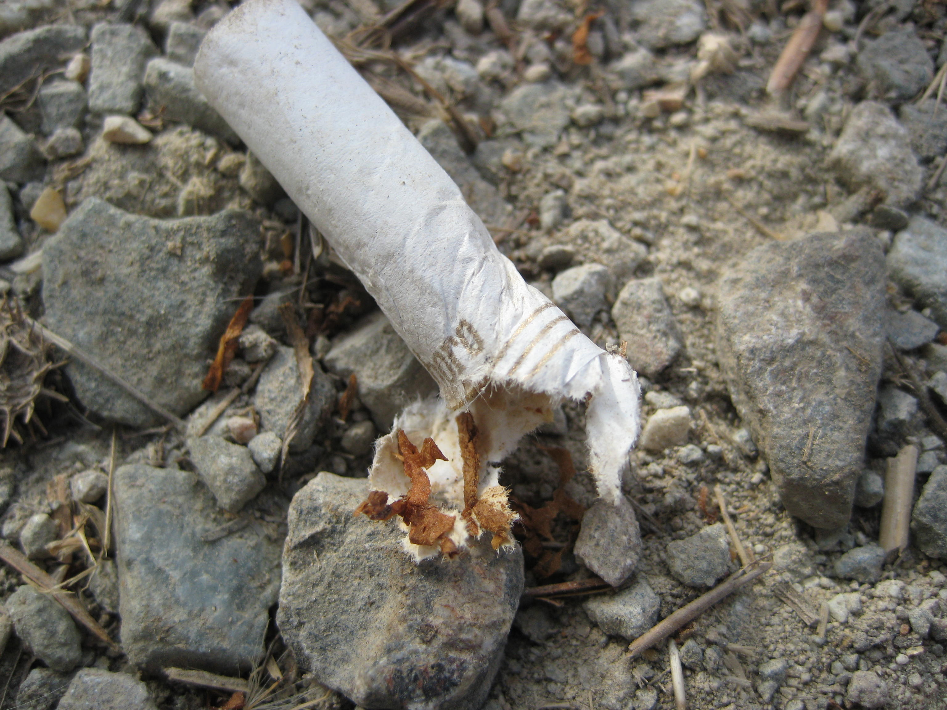 A piece of litter found on the Dipsea Trail